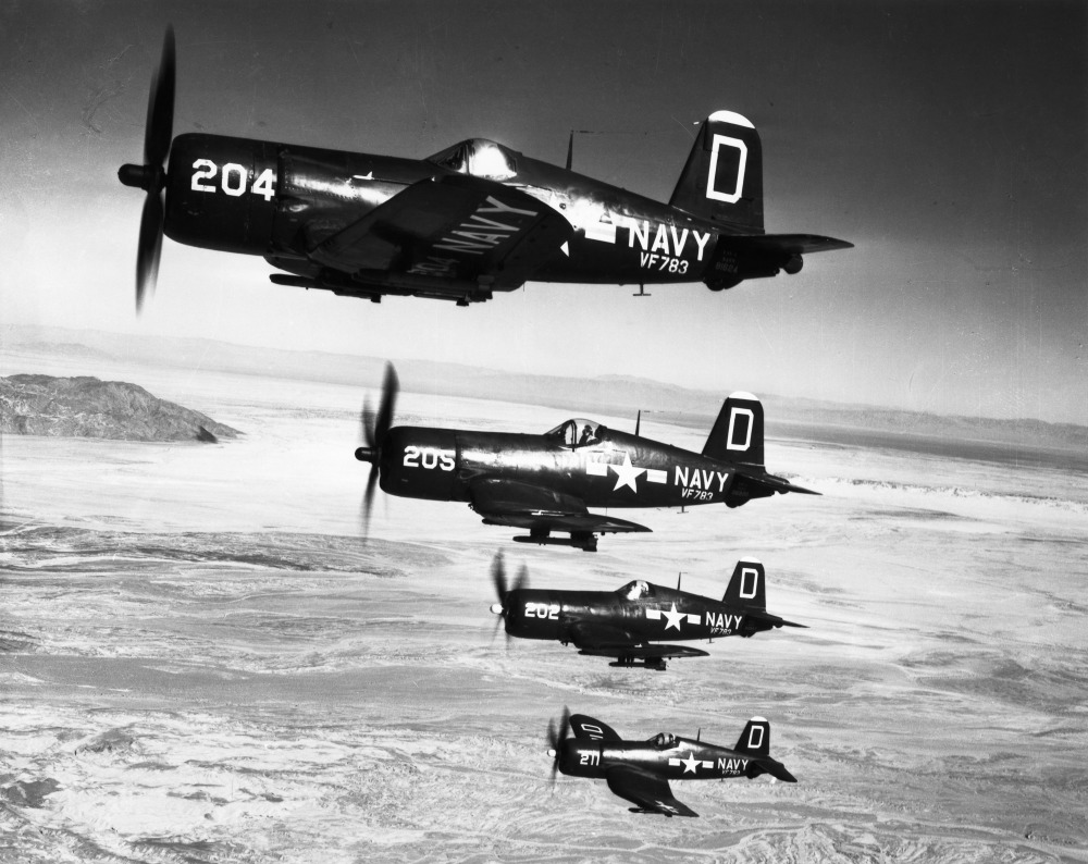 PictionID:41545306 - Title:Ray Wagner Collection Image - Catalog:16_000416 Vought F4U-4 81624 VF-783 D204 3Nov50 - Filename:16_000416 Vought F4U-4 81624 VF-783 D204 3Nov50.tif - - - - Image from the Ray Wagner Collection. Ray Wagner was Archivist at the San Diego Air and Space Museum for several years and is an author of several books on aviation --- ---Please Tag these images so that the information can be permanently stored with the digital file.---Repository: San Diego Air and Space Museum